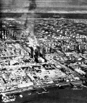 Abadan Refinery, 1938